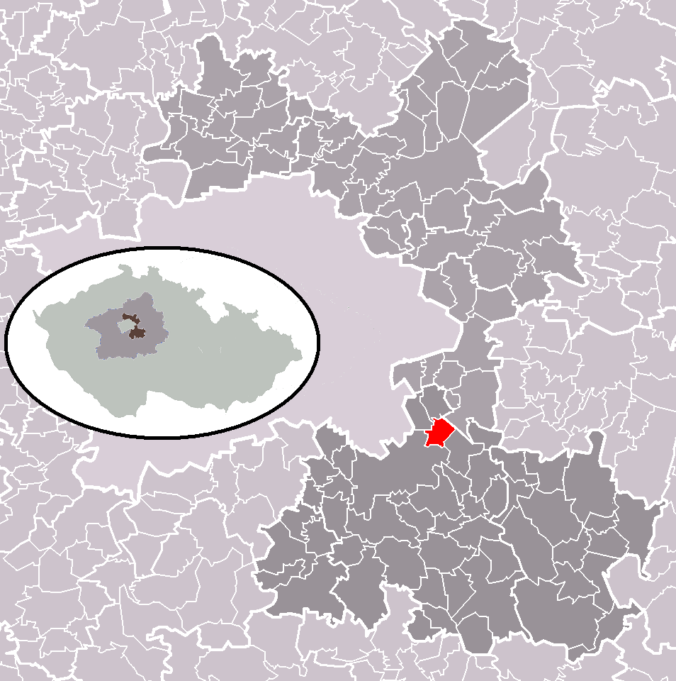 Location of Březí municipality within Prague-East District and administrative area of Říčany as a Municipality with Extended Competence.